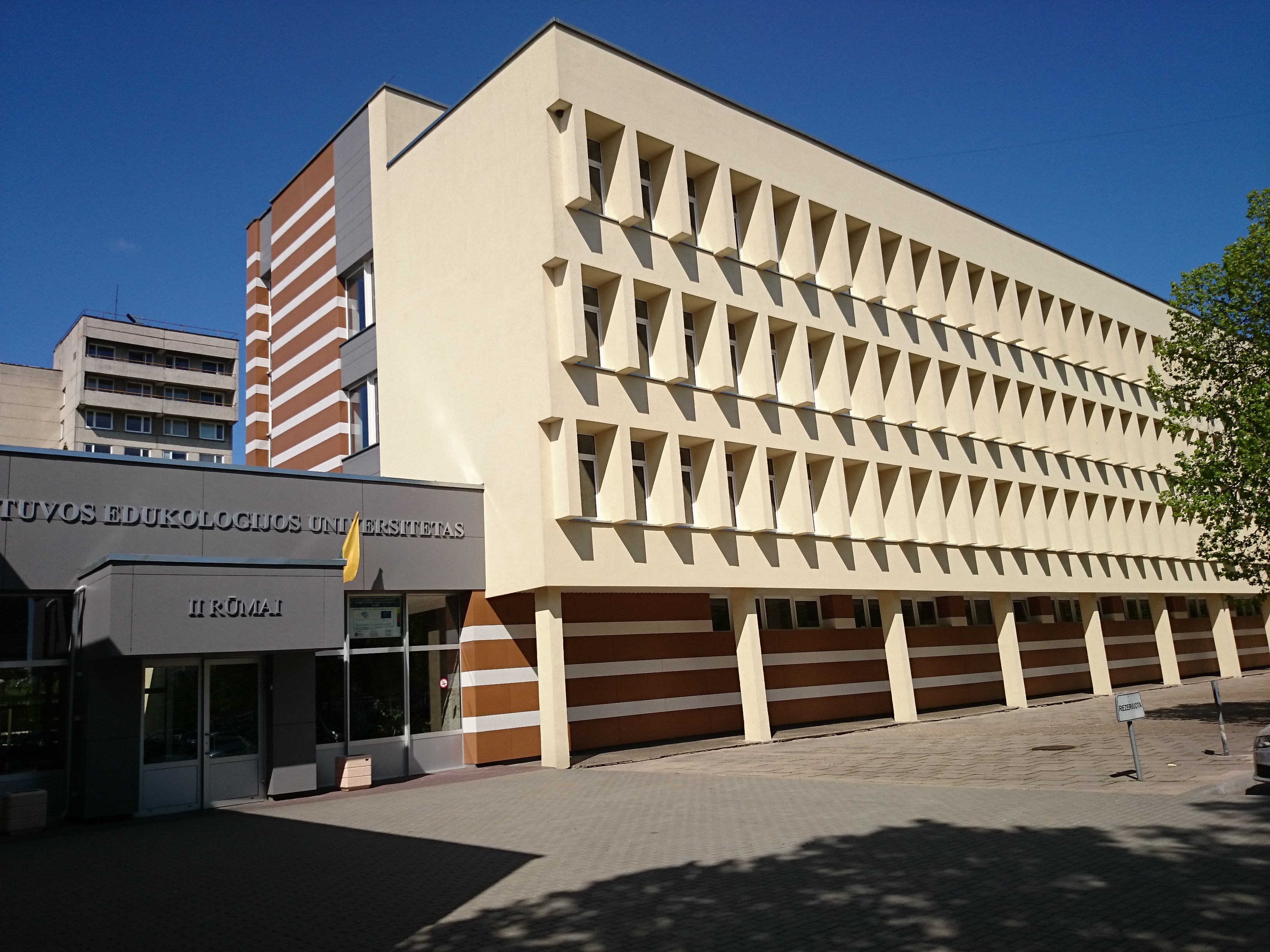 Vilnius Pedagogical University